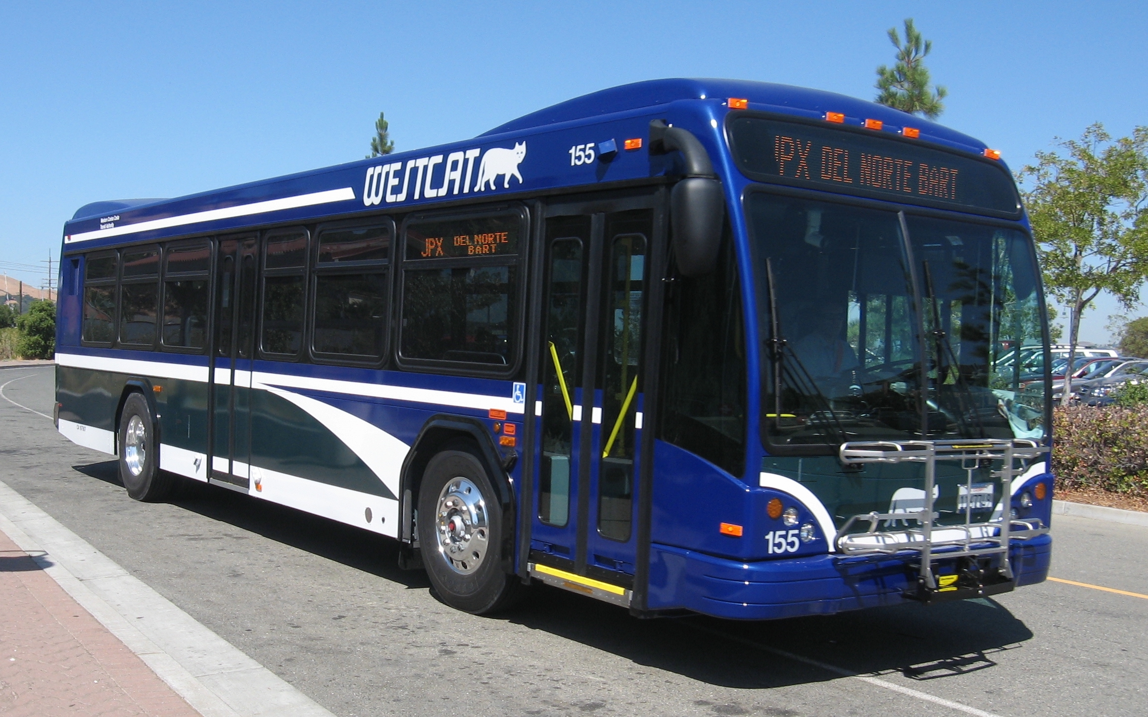 Western Contra Costa County Transit (WestCAT) bus 155